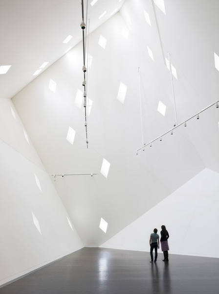 The interior of the Contemporary Jewish Museum in San Francisco, California, United States. The building opened in 2008 and was designed by Studio Daniel Libeskind.